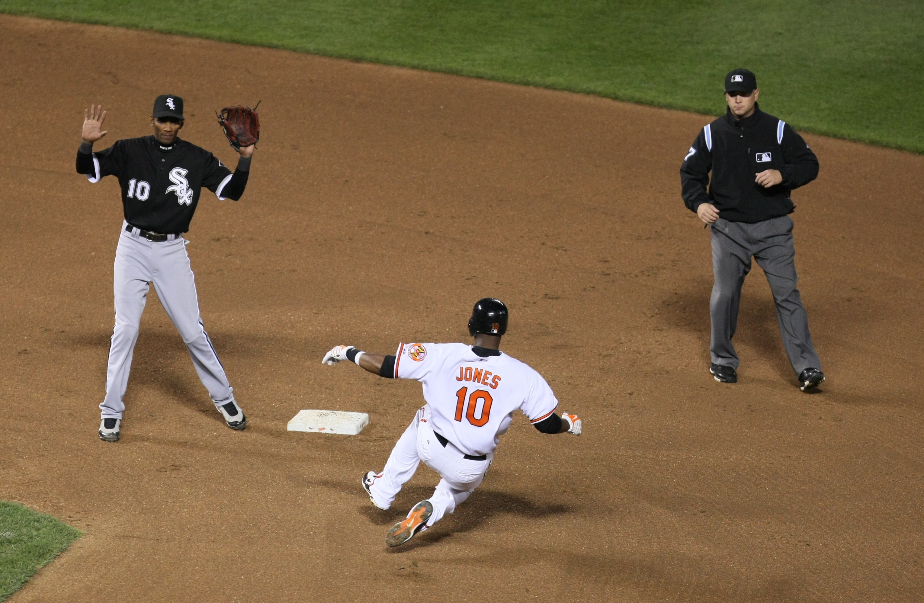 Chicago White Sox at Baltimore Orioles - April 23, 2009.